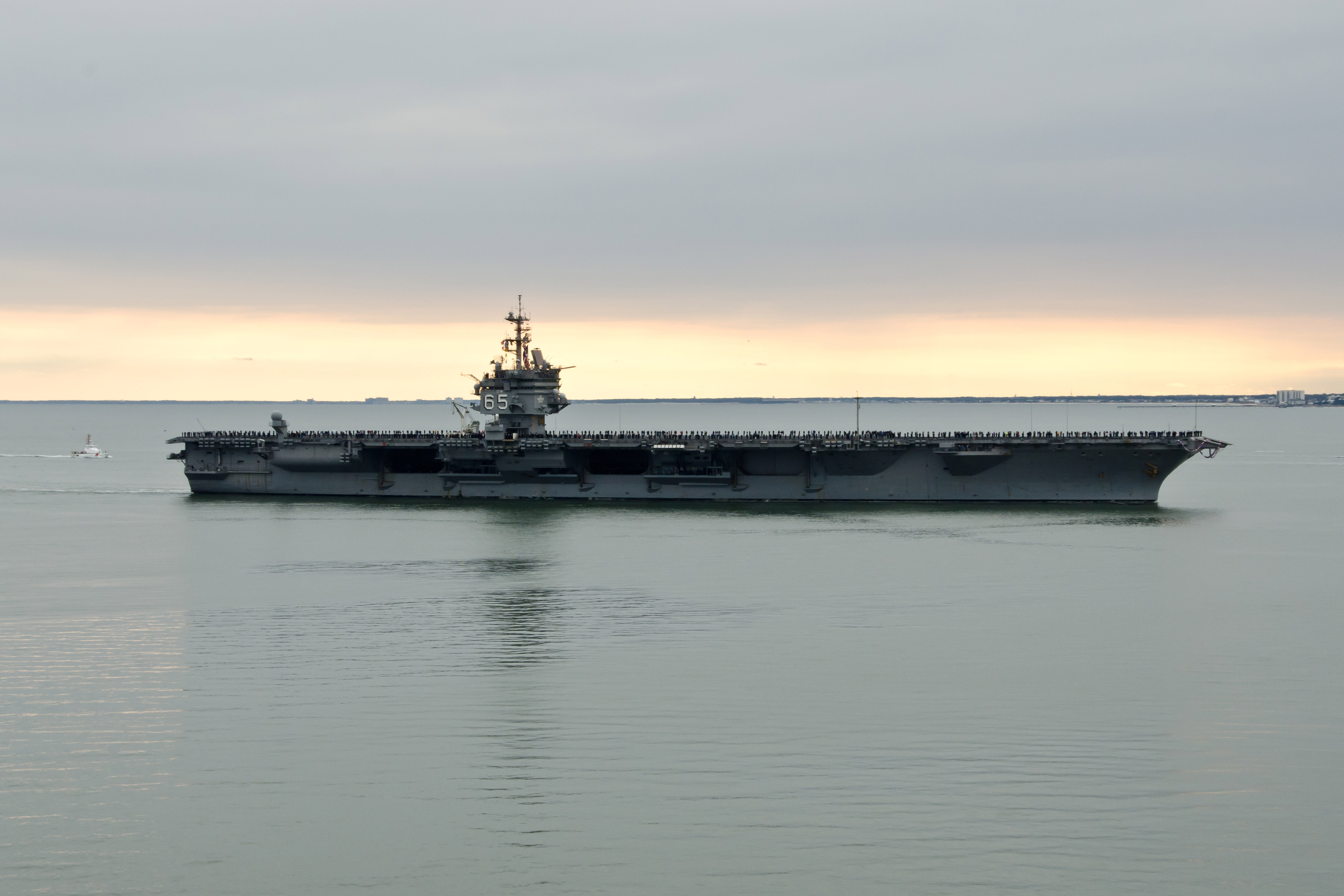 The U.S. Navy aircraft carrier USS Enterprise (CVN-65) passes Fort Monroe National Monument as the ship arrives at Naval Station Norfolk, Virginia (USA), on 4 November 2012. The "Big E"'s return to Norfolk was the 25th and final homecoming of her 51 years of distinguished service. Enterprise, with assigned Carrier Air Wing 1 (CVW-1), had been deployed to the Mediterranean Sea and the Indian Ocean from 11 March to 4 November 2012.